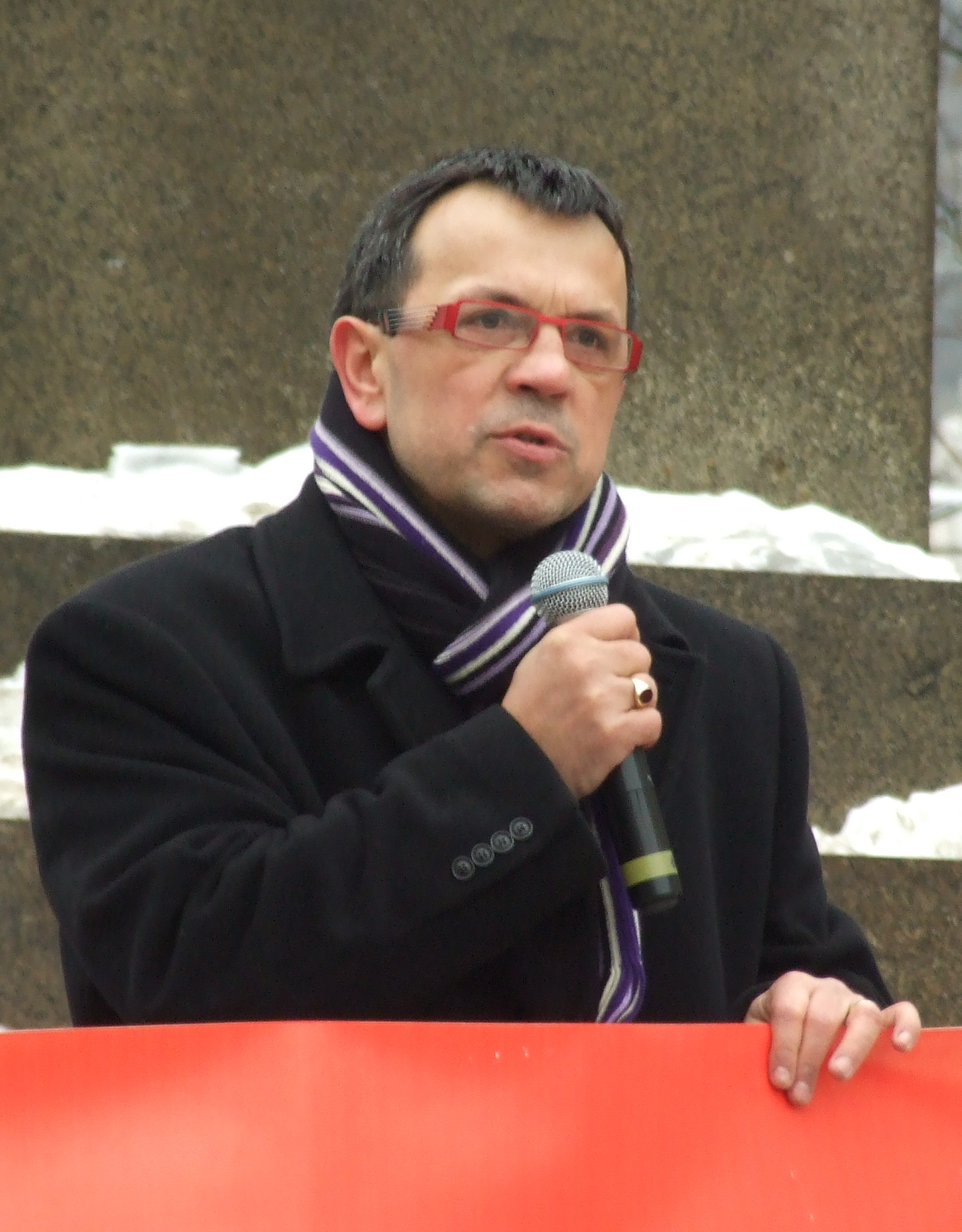 Demonstration of the "Friends of Serbs in Kosovo" organization in Prague, Václavské náměstí square. The date 2010/02/17 was chosen because of the 2nd anniversary of Kosovo's declaration of independence. Here the chairman of the organization - Jaroslav Foldyna - speaking about events in 1939, 1968 and comparing these with recognition of Kosovo by Czech government